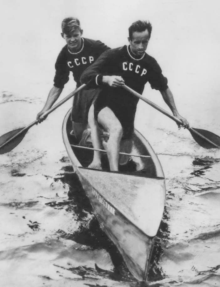 Historic Images 1952 Press Photo Russian canoeists Train for 1952 Olympics